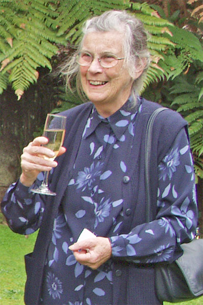 Evelyn Stokes in Tauranga, New Zealand for her mother's 90th birthday